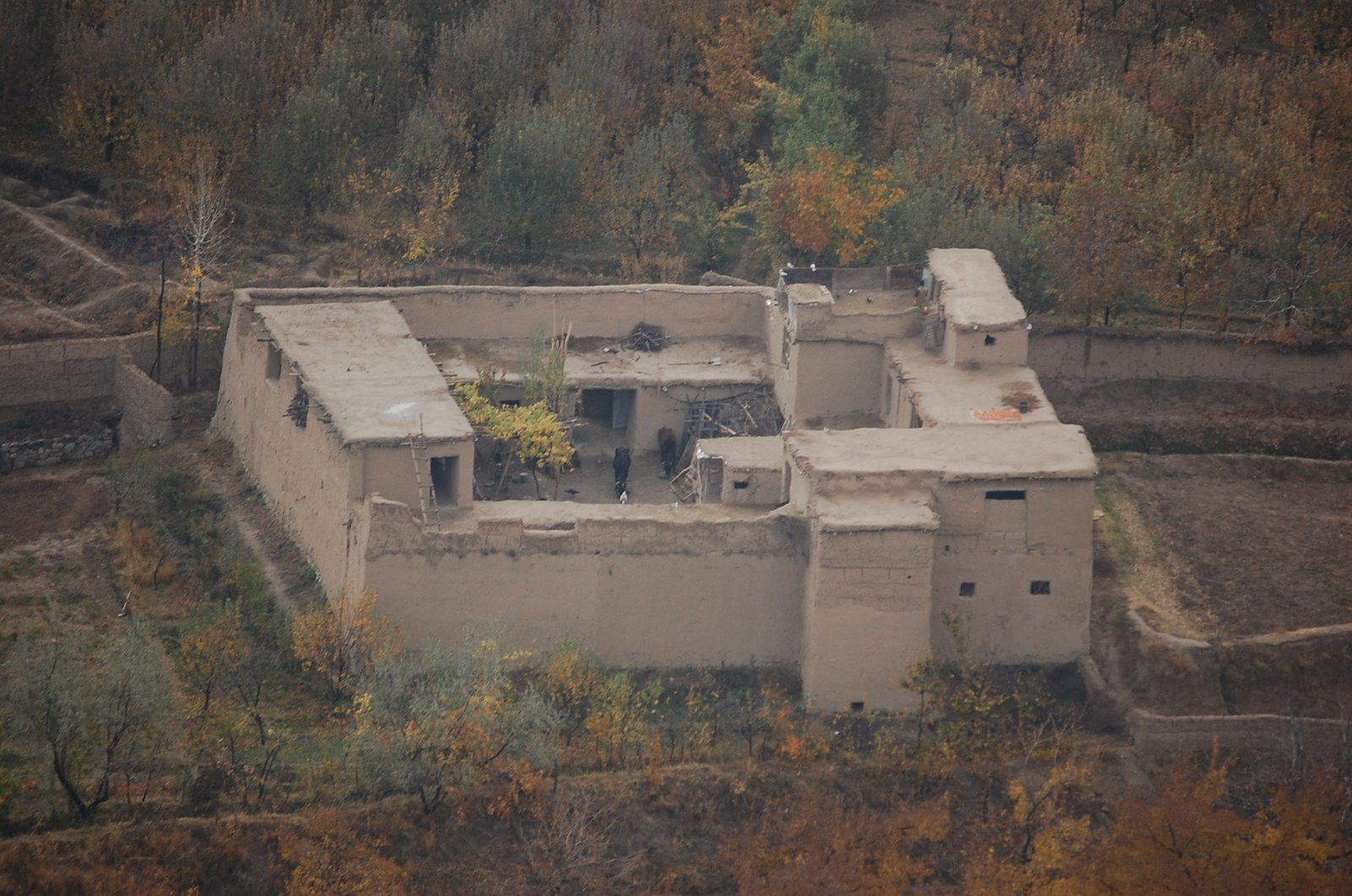 Rural Afghan village in the snow taken from helicopter in winter by Duane Wilkins